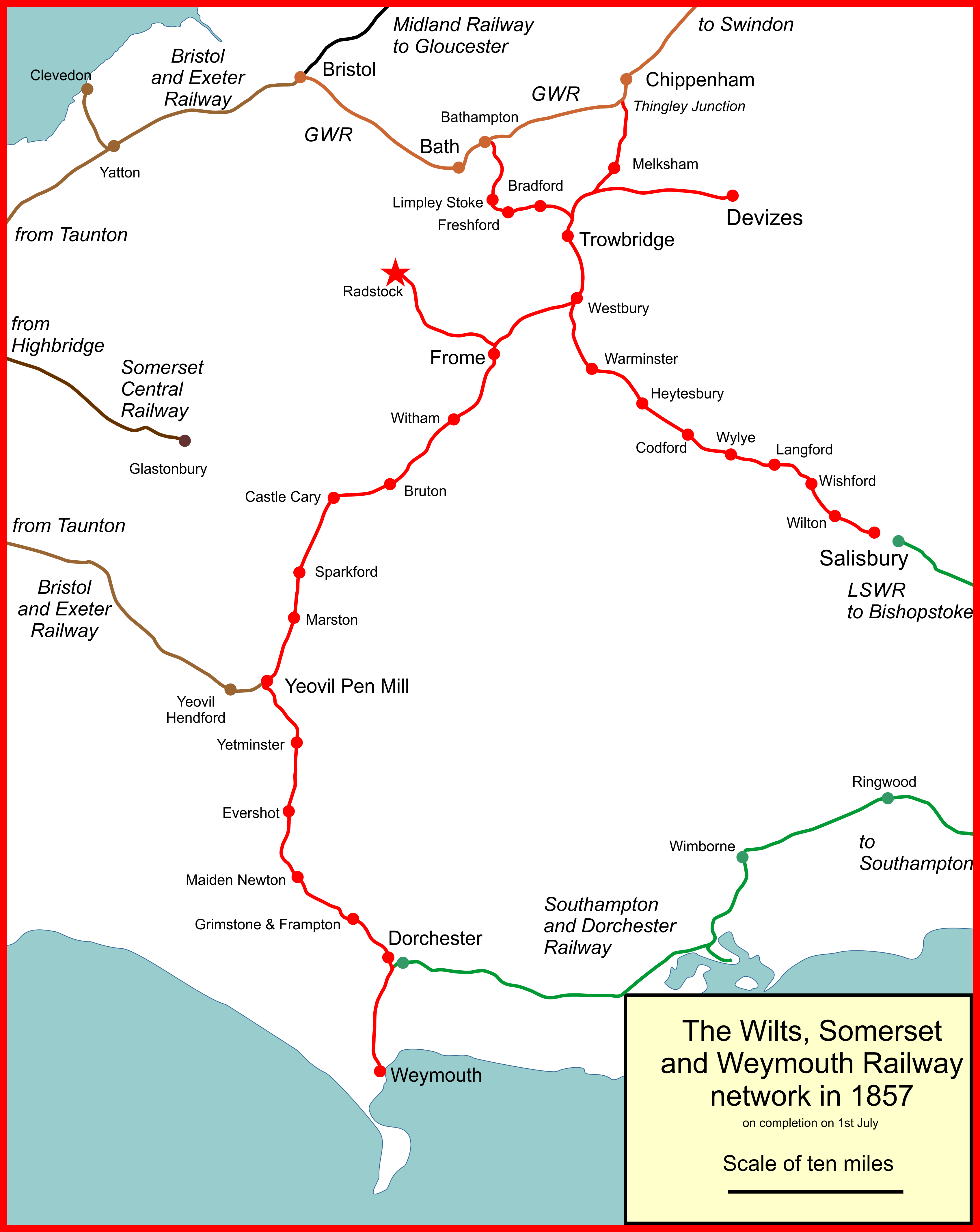 Map of Wilts, Somerset and Weymouth Railway network England 1857